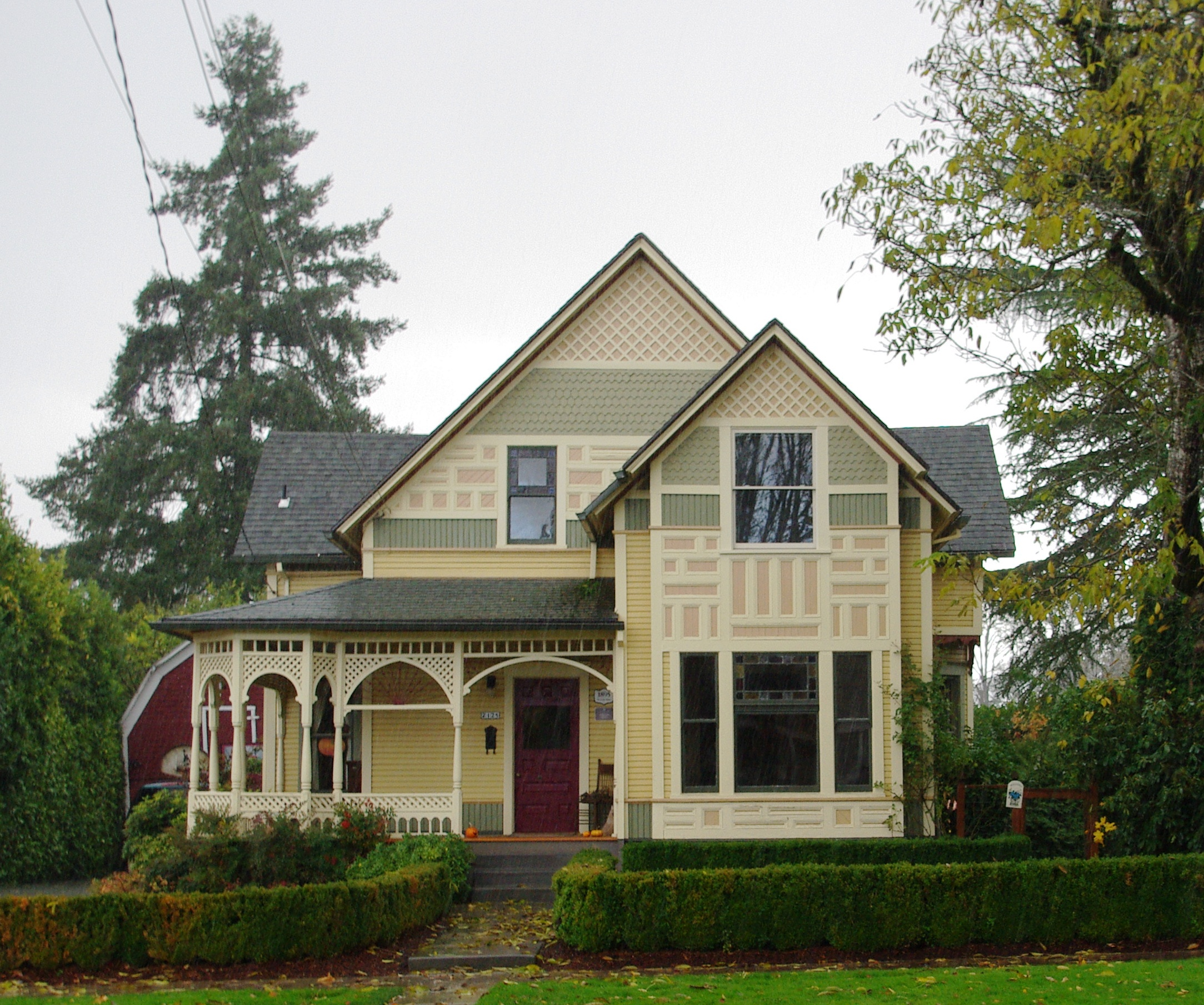 Harry A. Crosley House on the NRHP in Forest Grove, Oregon, USA.